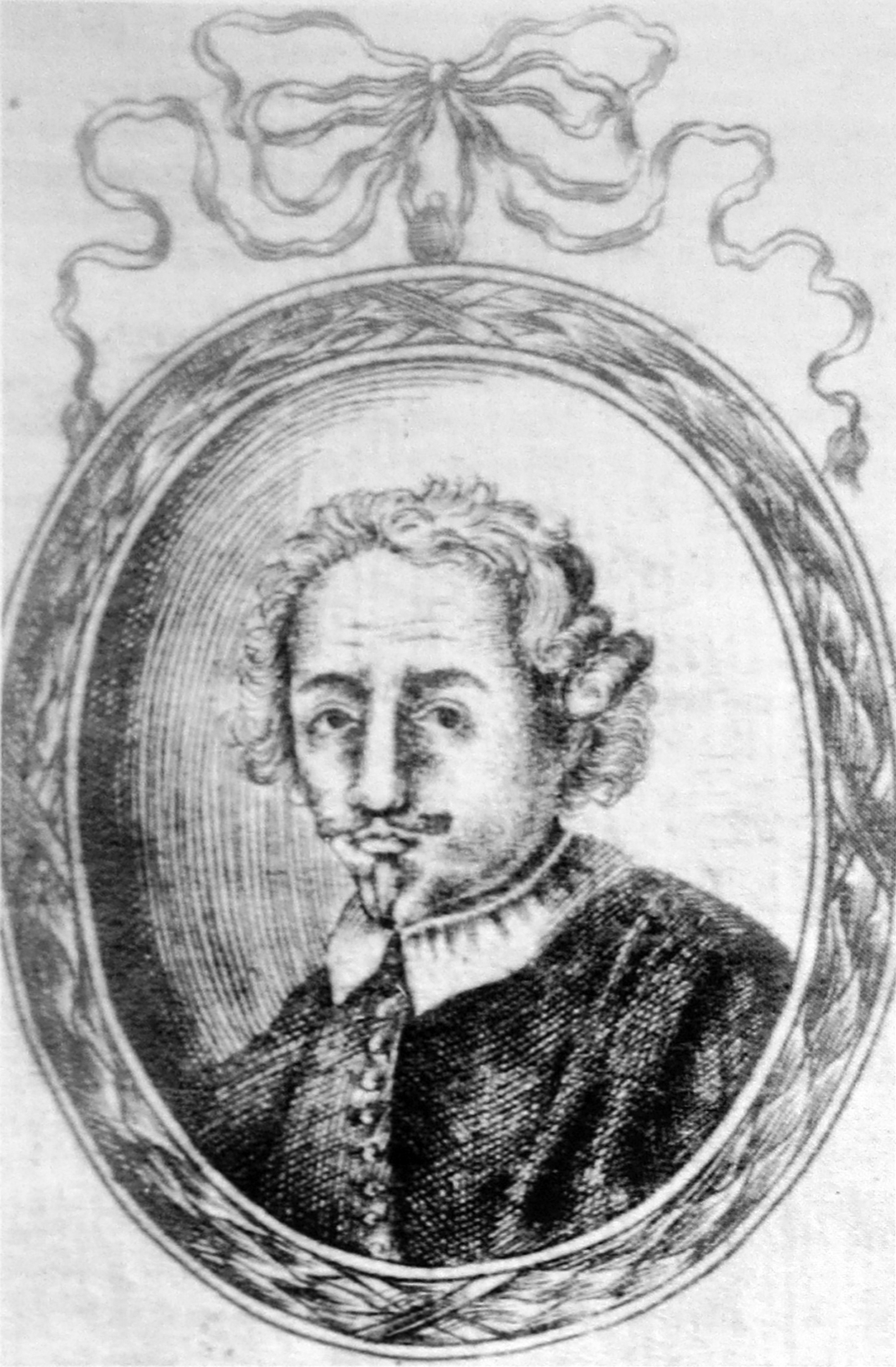 Portrait of Loreto Mattei (Rieti 1622-1705), italian poet